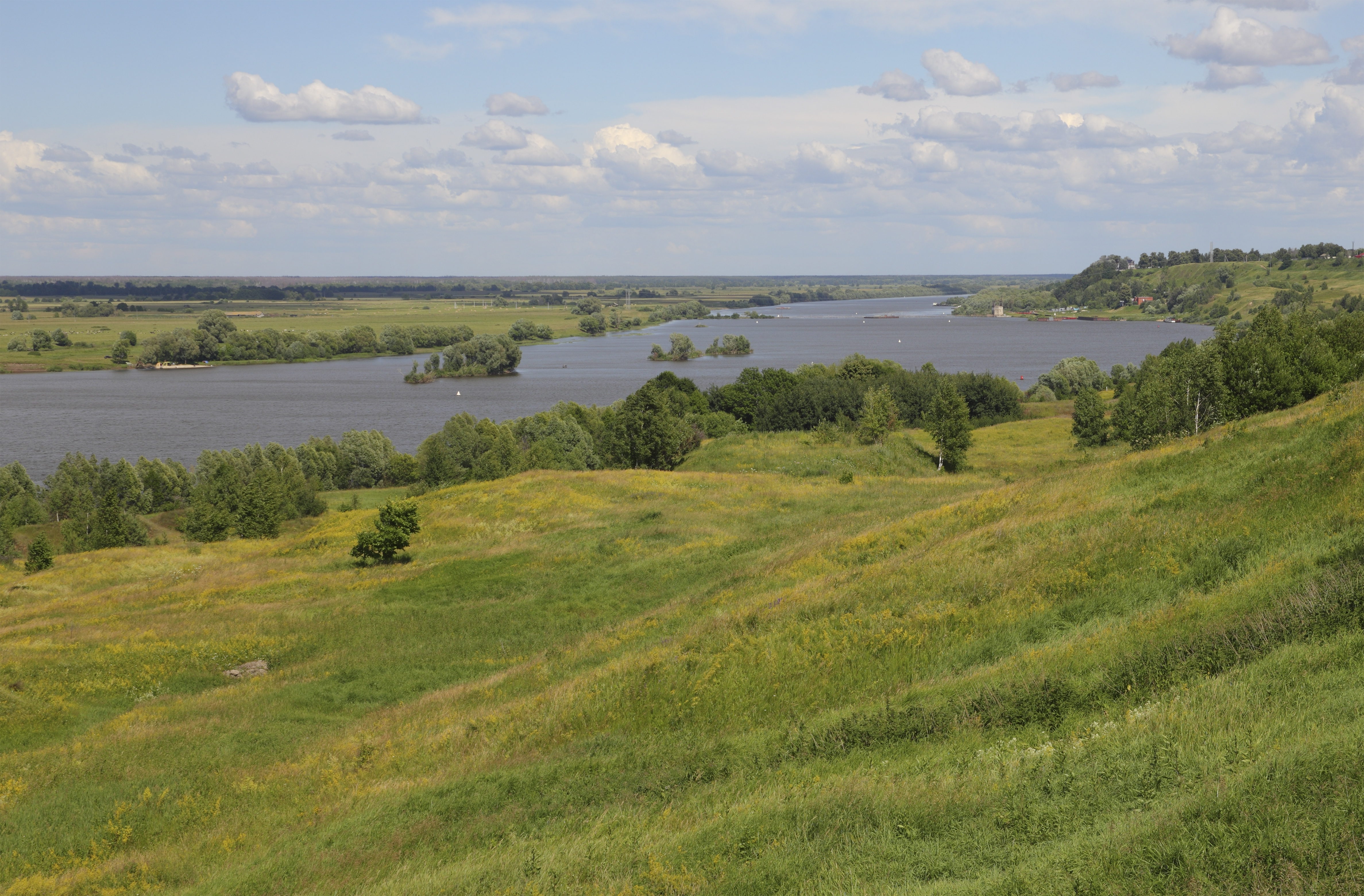 View to the Oka River from Konstantinovo village, Ryazan Oblast, Russia